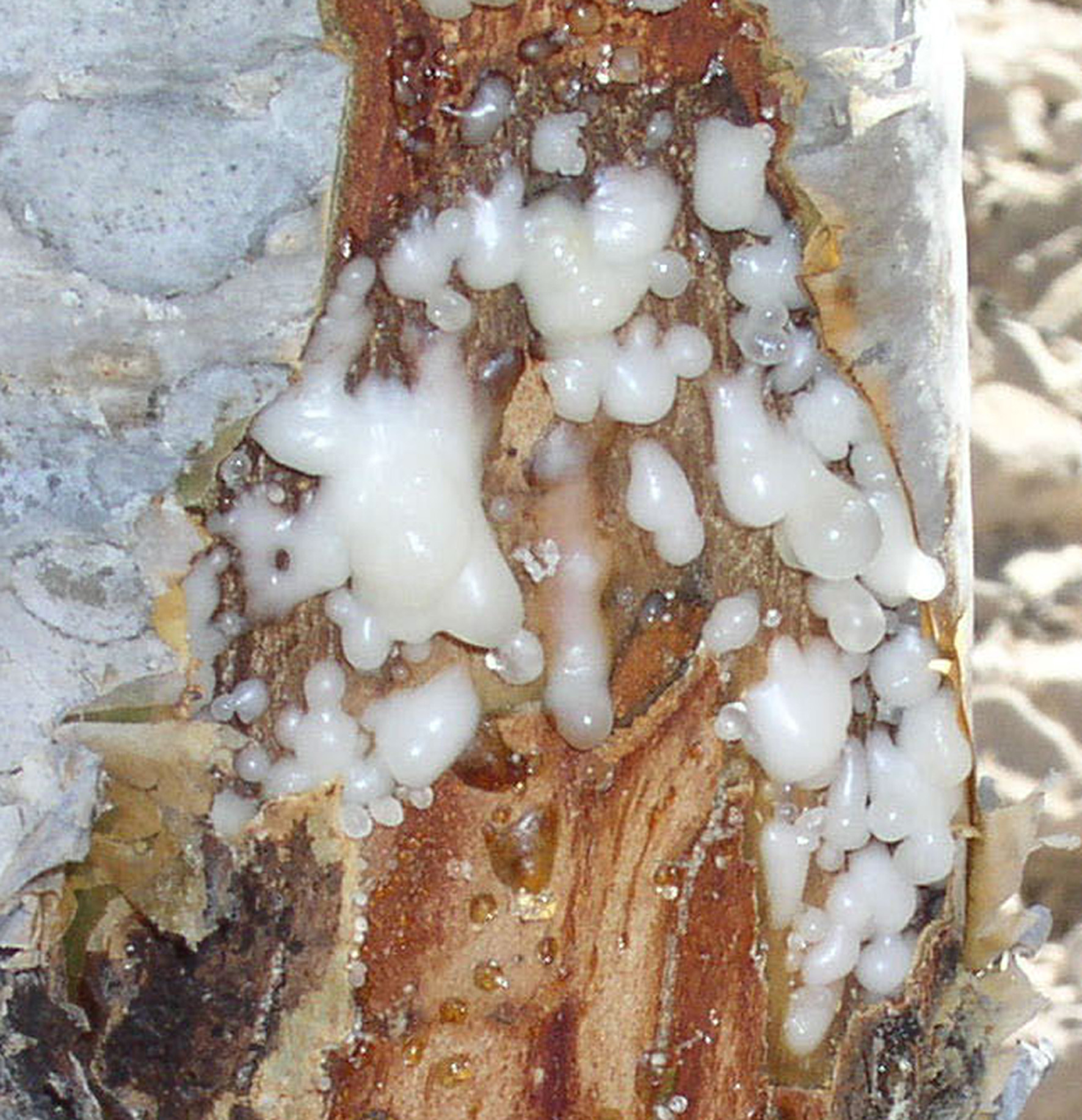 Boswellia sacra: incense oozing from the bark